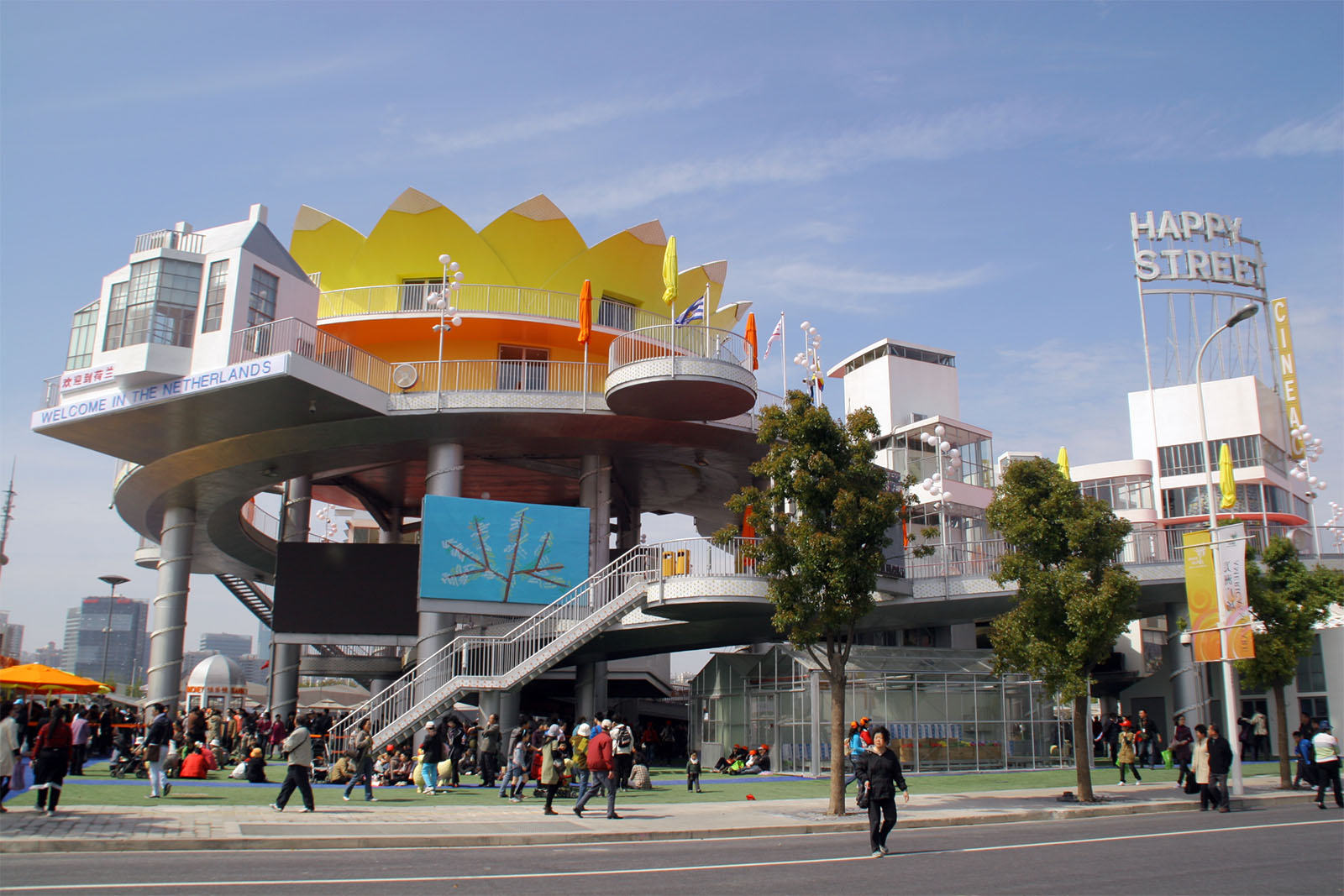 Netherlands Pavilion of Expo 2010